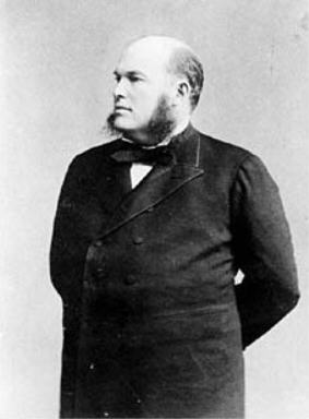 Philip D. Armour in the 1880s.